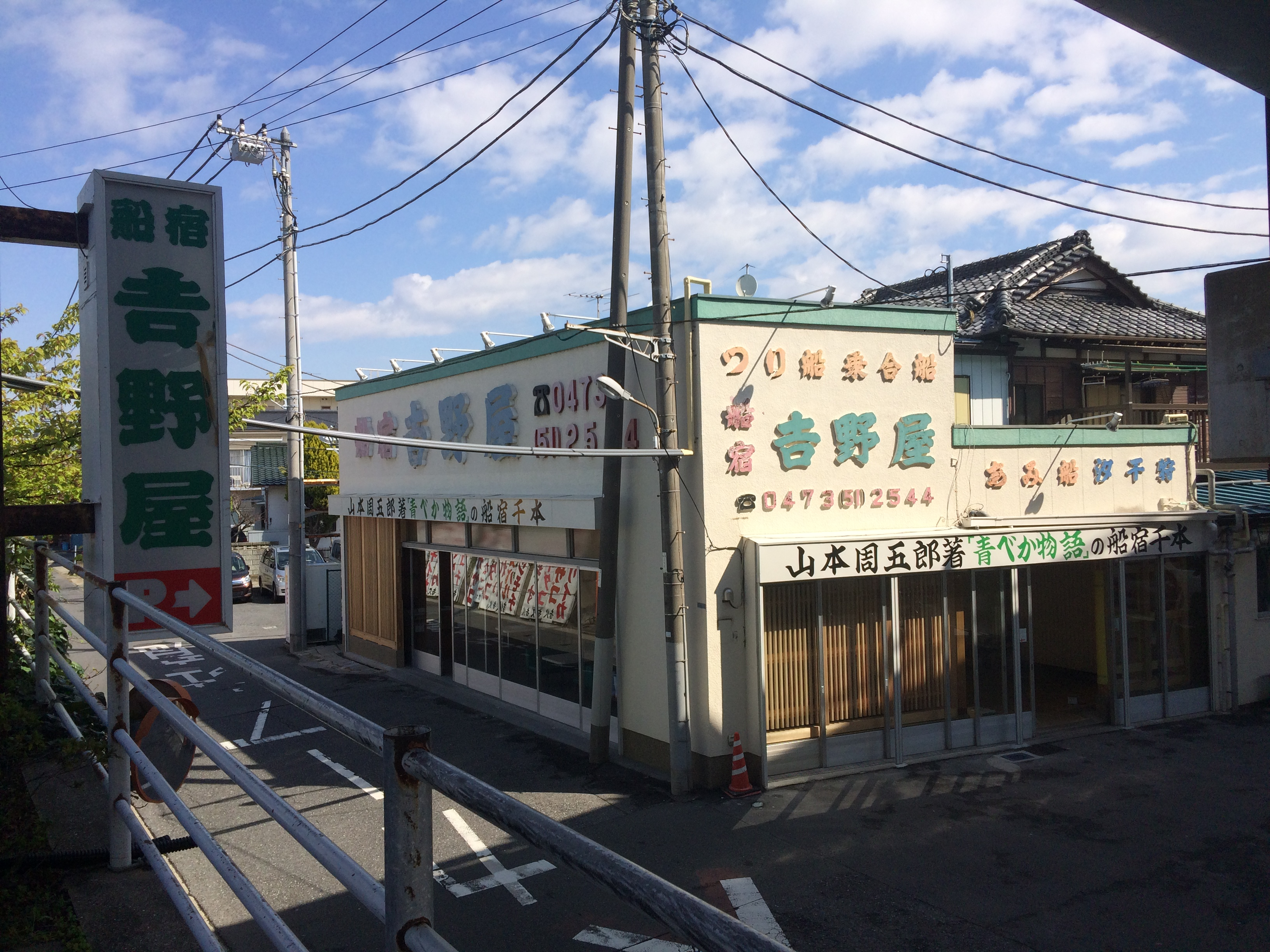 Funayado Yoshinoya, Urayasu, Chiba. Photographed 2018-03-24.